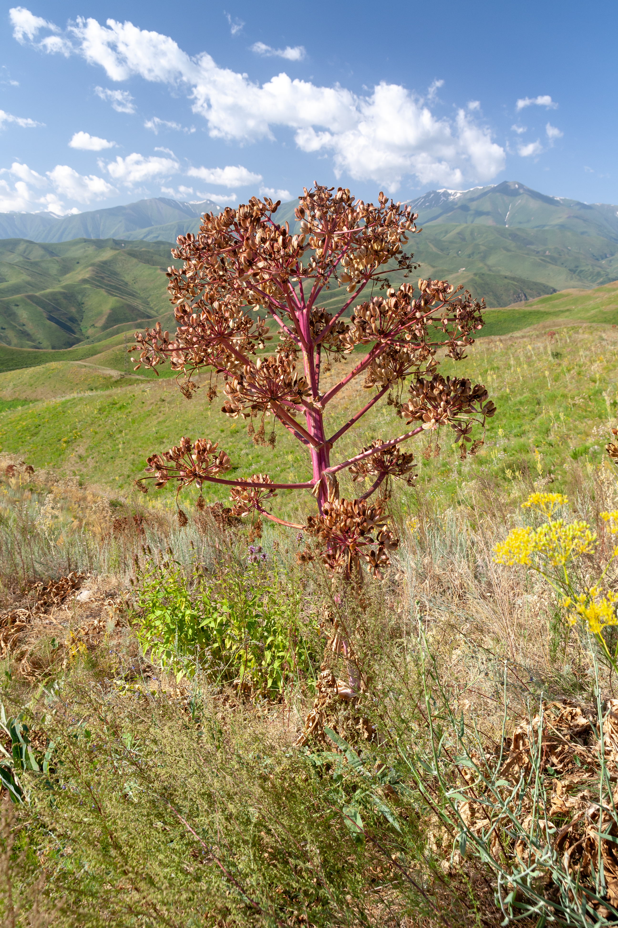 Fergana Range in Kyrgyzstan